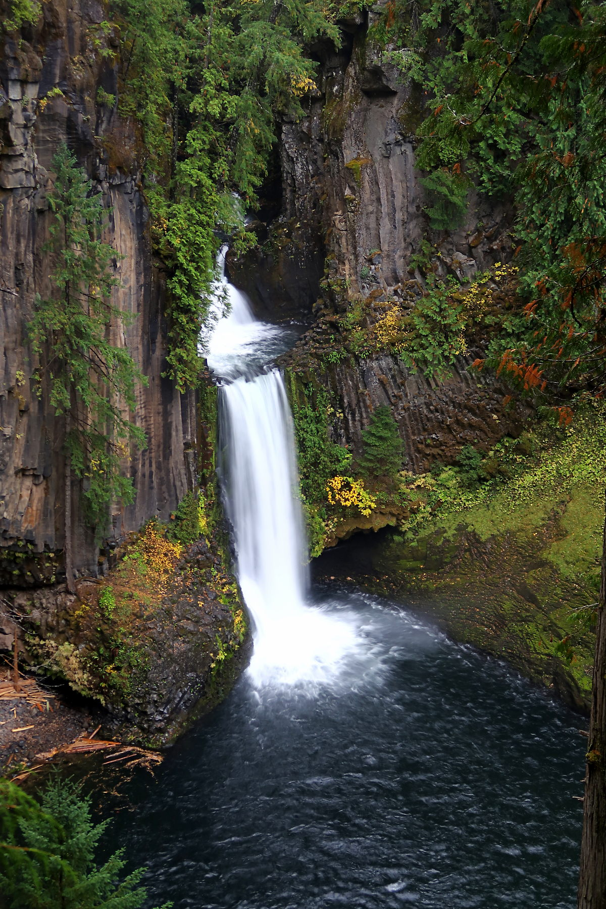 Photo of Toketee Falls, OR, USA. Taken October 19, 2019 by Alex Lockhart of Ashland, OR.